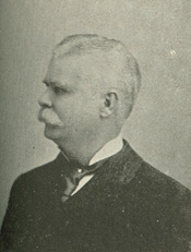 Former United States Representative from Alabama Richard Henry Clarke.